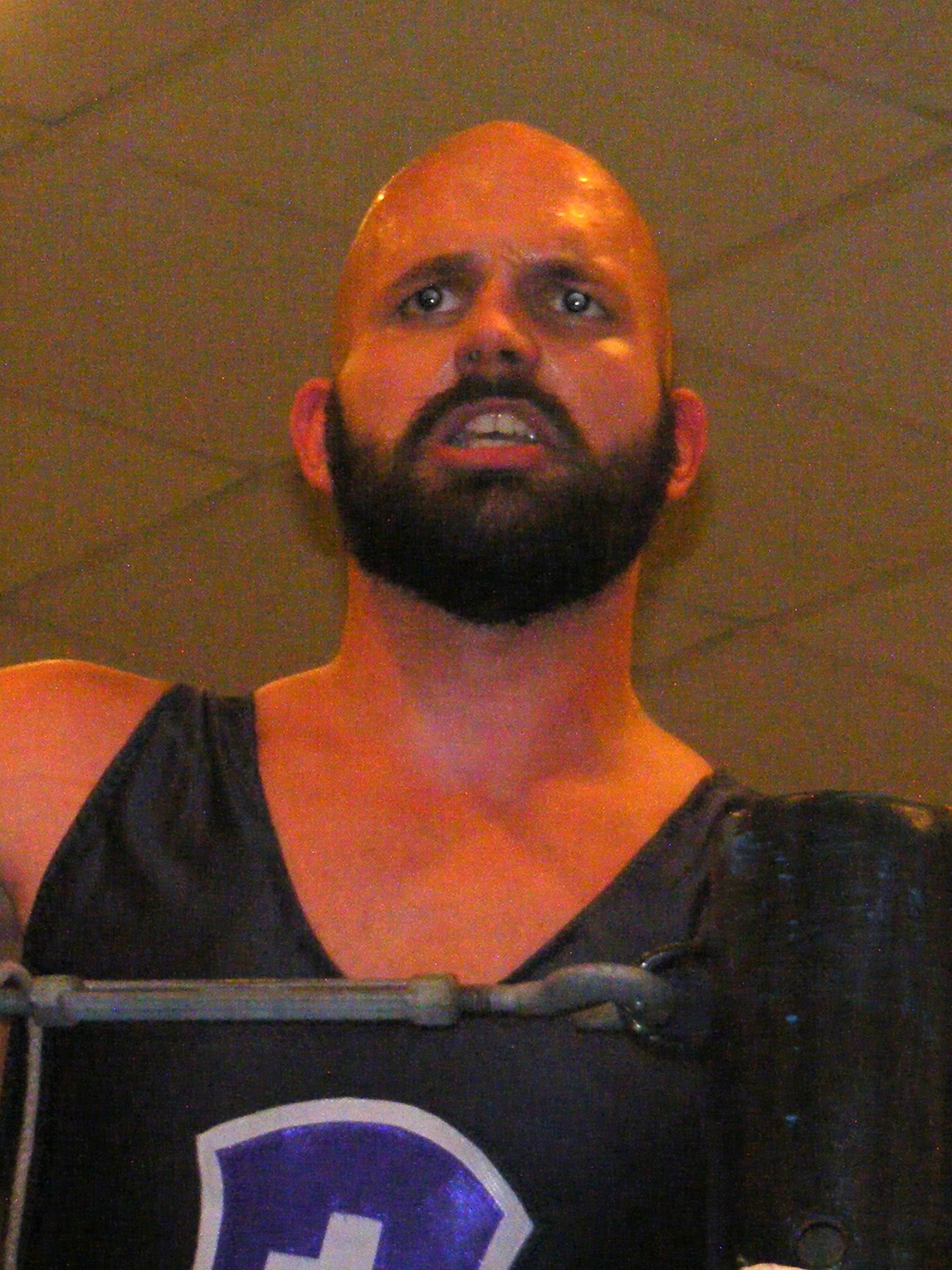 Ares at a Chikara show in Hamden, CT on October 24, 2010.